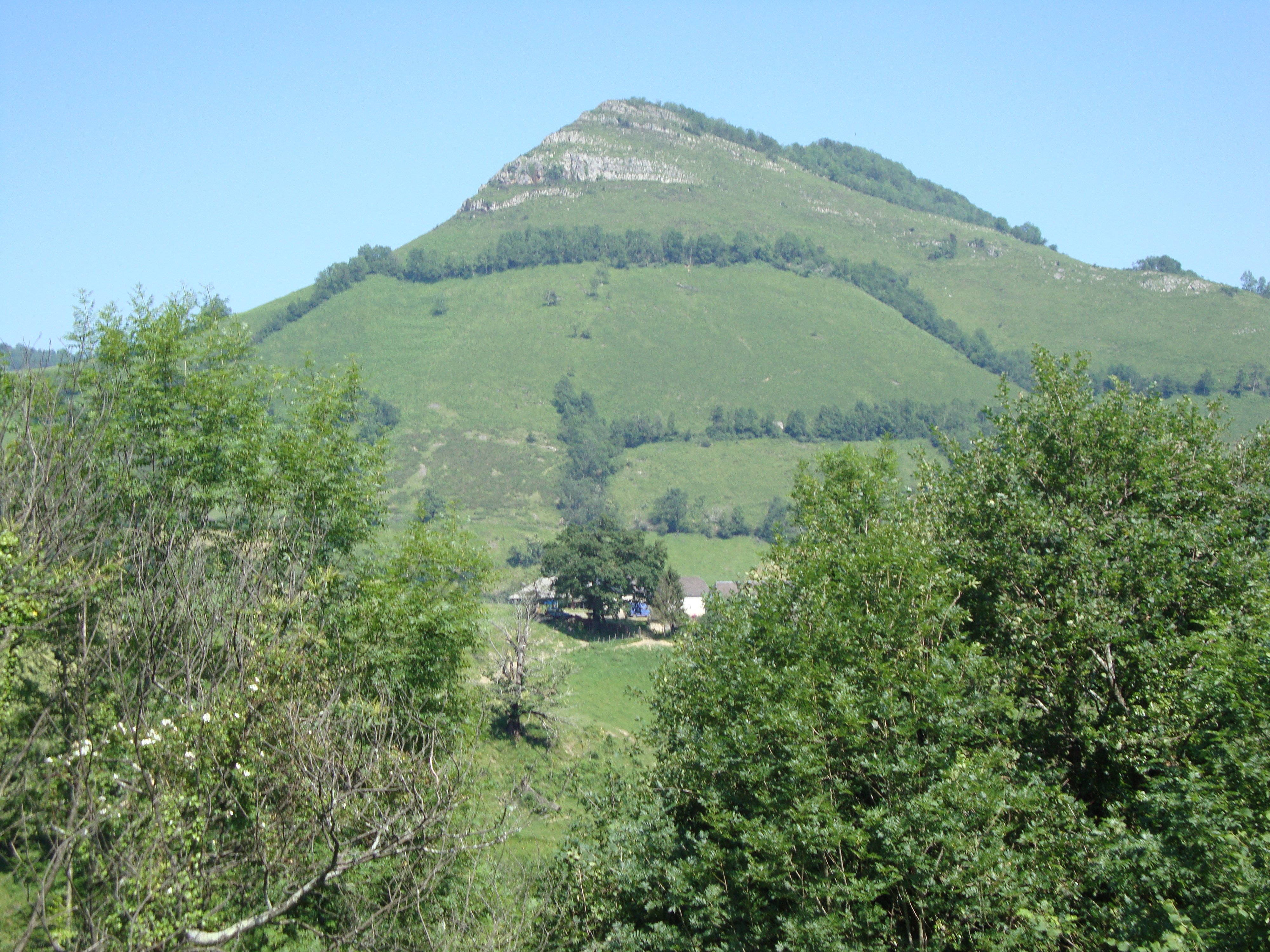 Montory (Pyr-Atl, Fr) Mont Begousse (767 m).